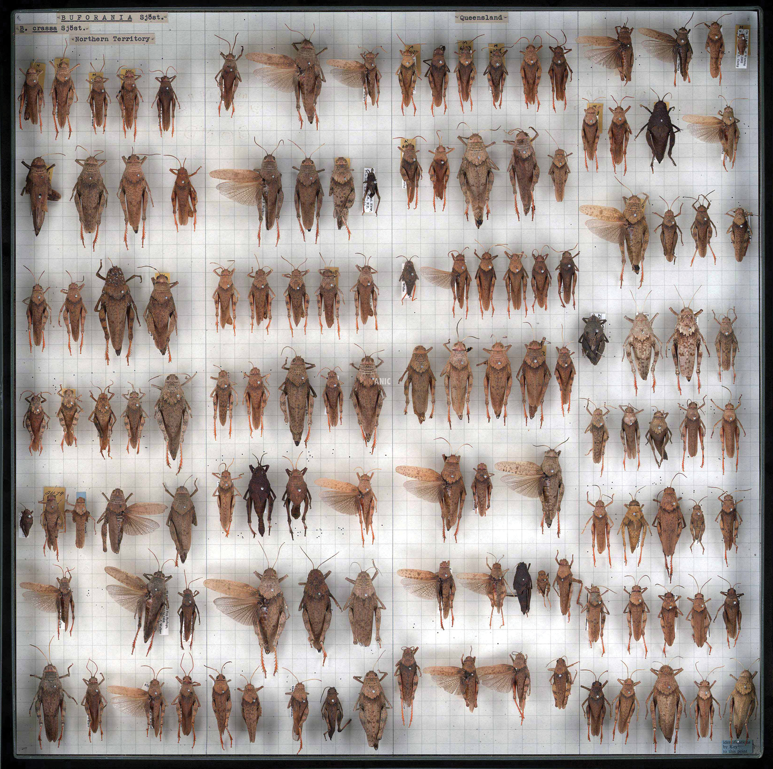 Ultra high-resolution image of Buforaniidae grasshoppers (Orthoptera) from the Australian National Insect Collection. Note that the specimens are arranged by species, and then by the State from which they were collected. In this example, Northern Territory specimens are pinned in the first and second columns, followed by Queensland specimens in columns three and four.